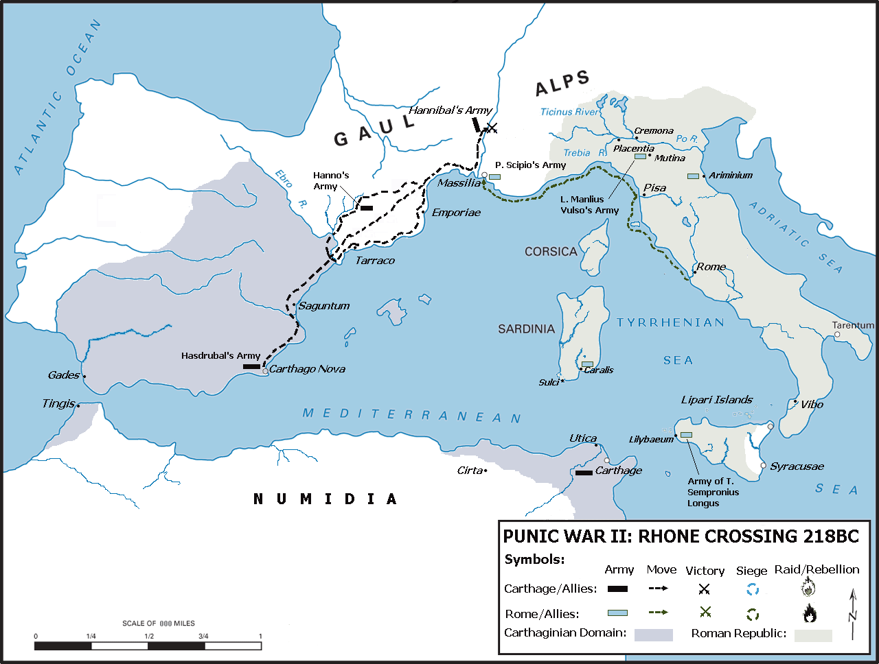 I have modified this file from the Wikimedia Commons image file Hannibal_Route_Of_Invasion.gif posted by Redtony under GNU Free Documentation License. The original image was created by Frakn Martini of United States Military Academy.